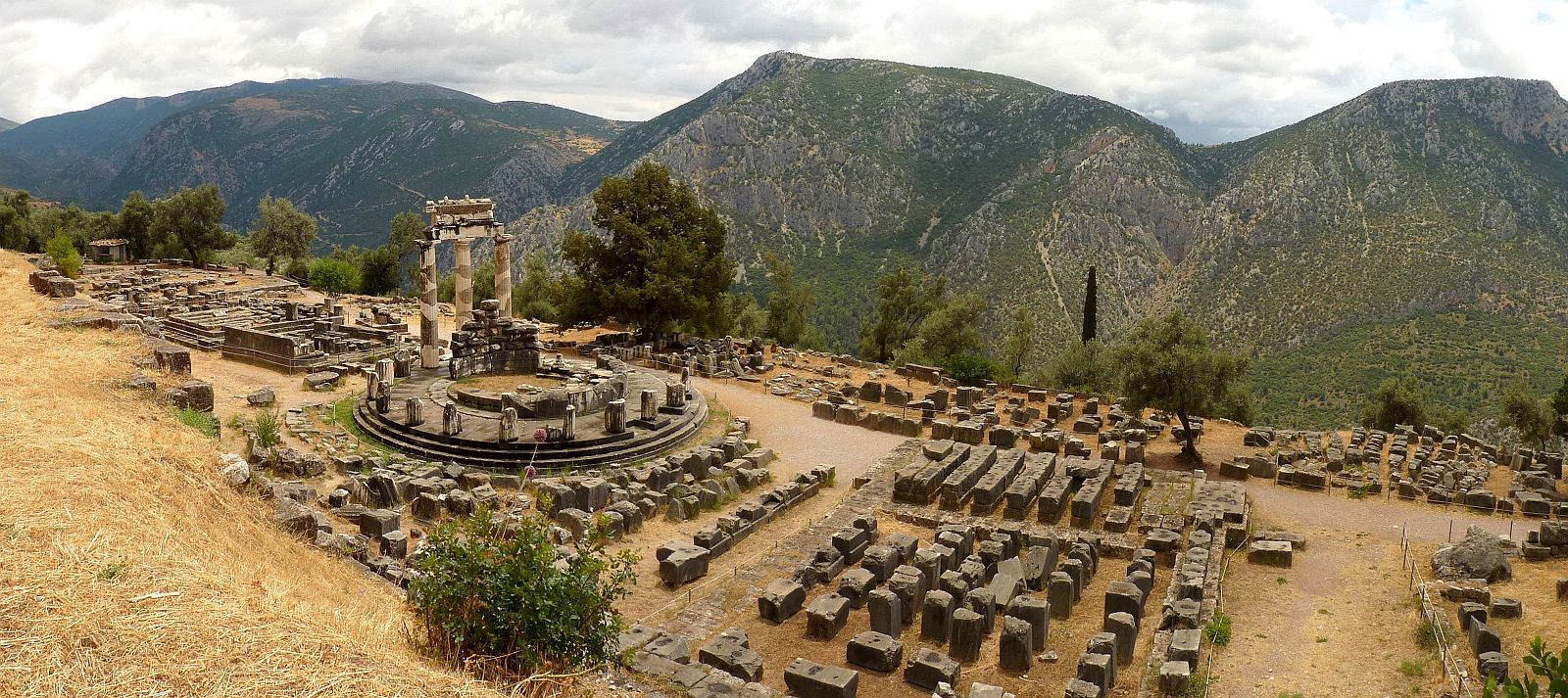 Delphi (Greek: Δελφοί, [ðelˈfi]) is both an archaeological site and a modern town in Greece on the south-western spur of Mount Parnassus in the valley of Phocis. You can use the images for free. But a link to - I would be happy :)